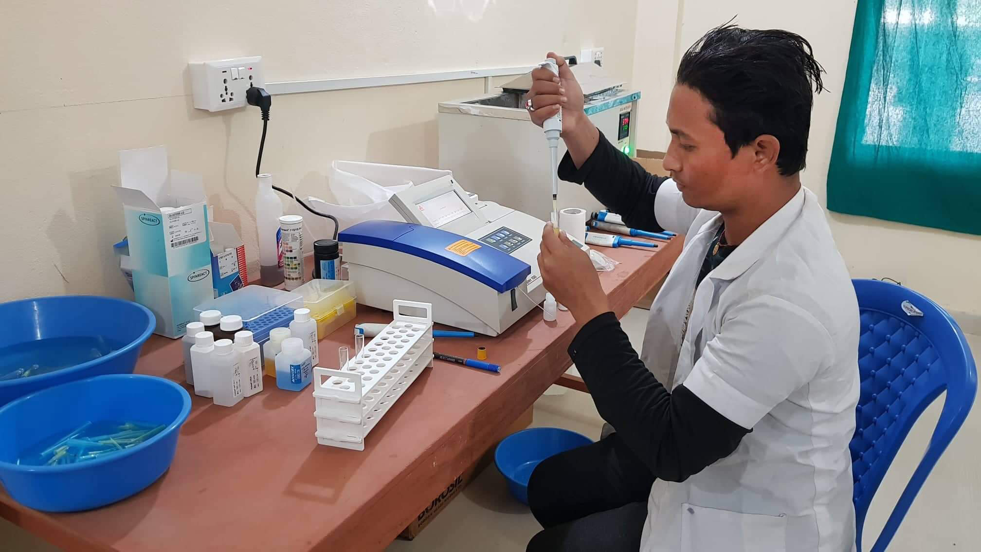 A lab technician works Dec. 20, 2018, at the Binaytara Foundation Cancer Center in Janakpur, Nepal.